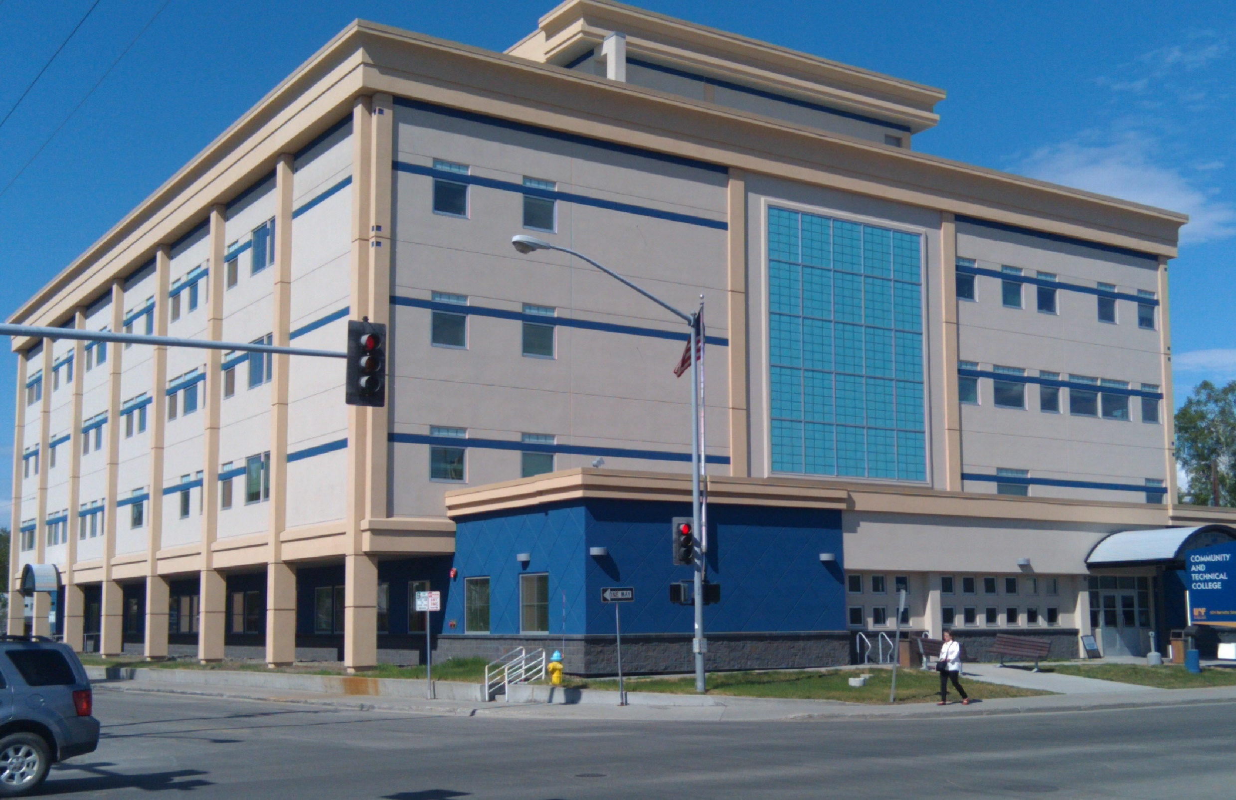 The main classroom building of the Community and Technical College of the University of Alaska Fairbanks, located at 604 Barnette Street in downtown Fairbanks. The building was constructed in 1964, and housed state government offices until 1975 and the offices and facilities of the Alaska Court System until 2001, after which UAF took over and renovated the building.